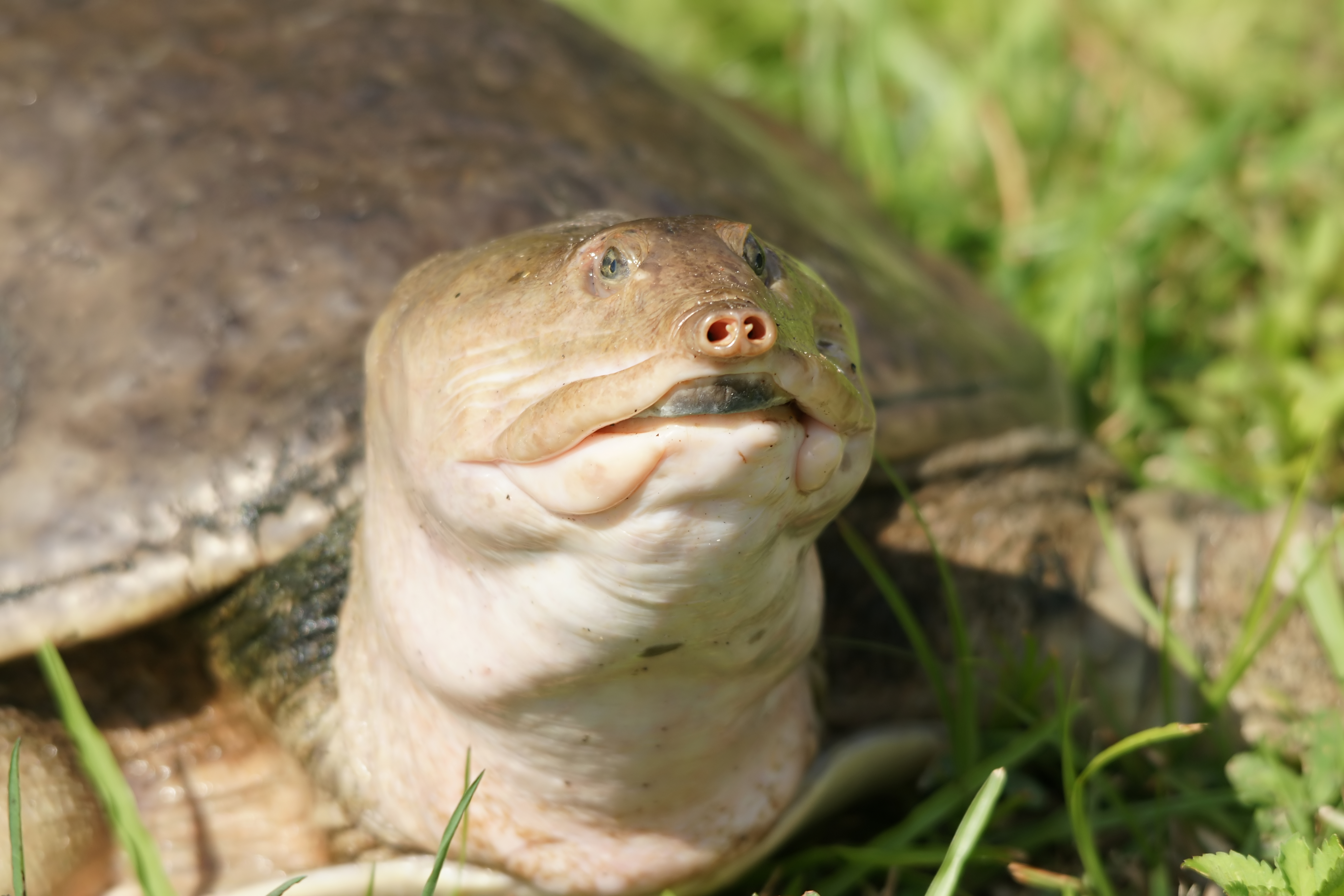 Florida softshell turtle at Everglades National Park in Miami-Dade County, Florida, U.S.A.